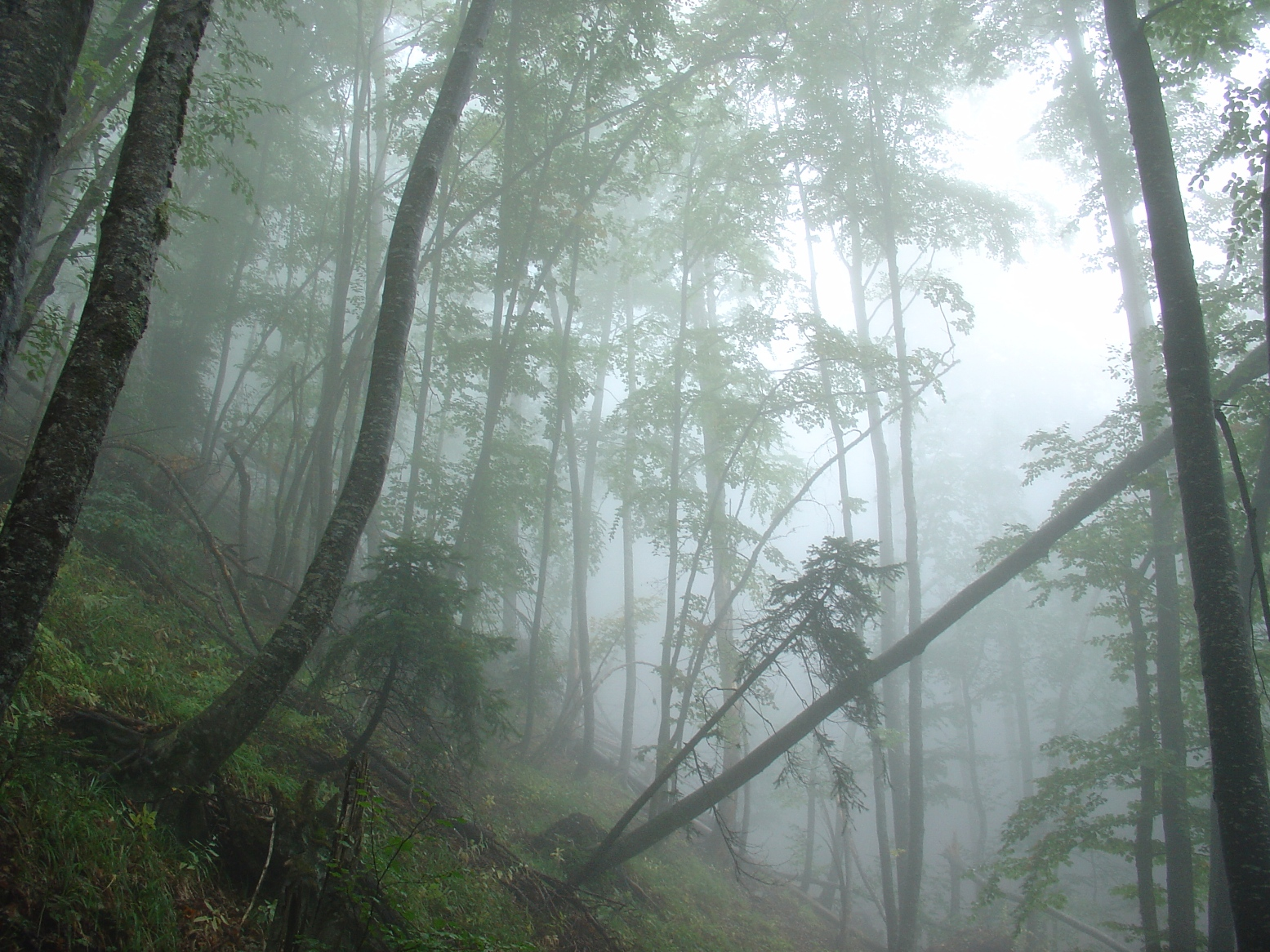 Mount Olympus, Greece.